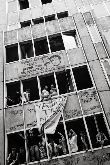 Group of protestants, having seized one of Siraselviler Cd buildings. Events of June 3, 2013.